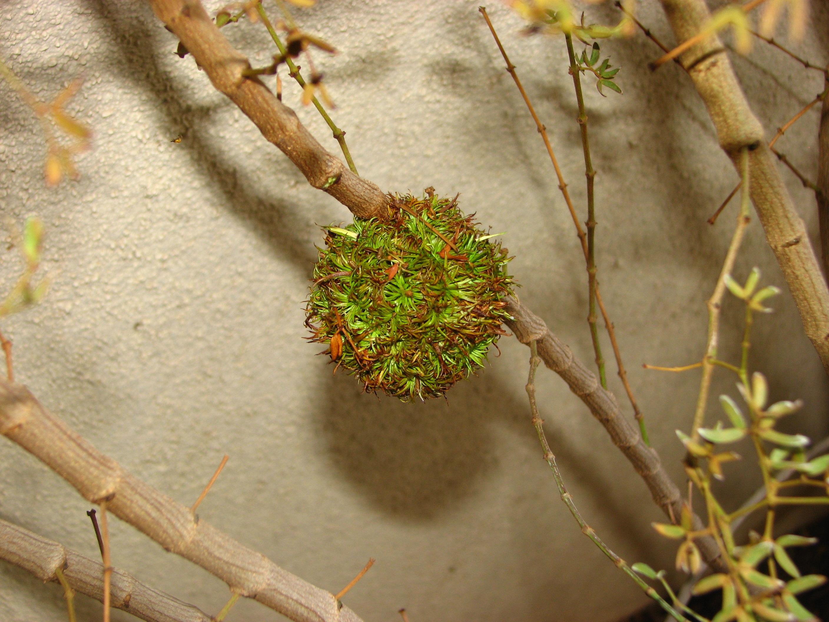 Creosote gall, as created by the Creosote gall midge